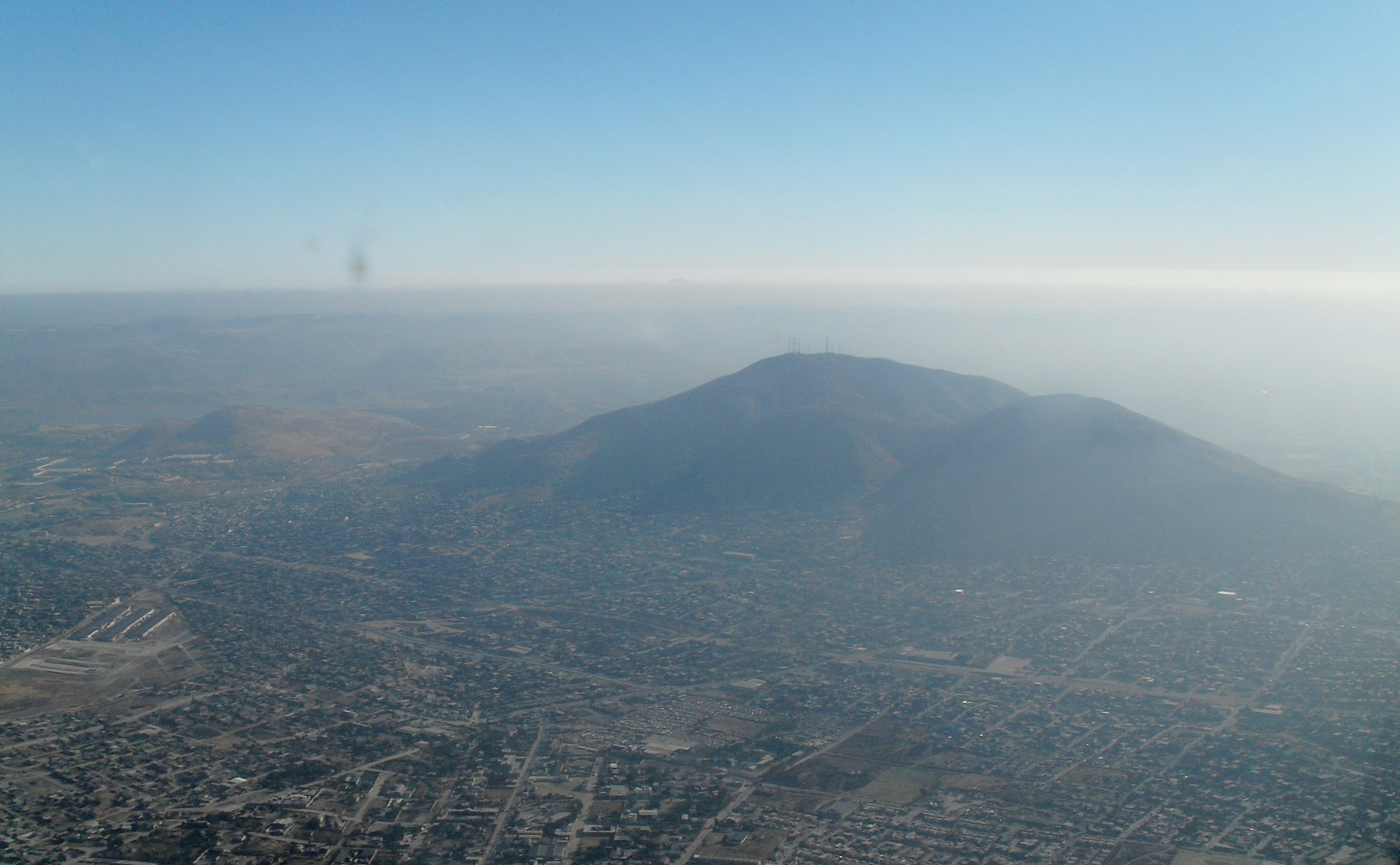 A view from cerro colorado (Tijuana) from an Airbus A319